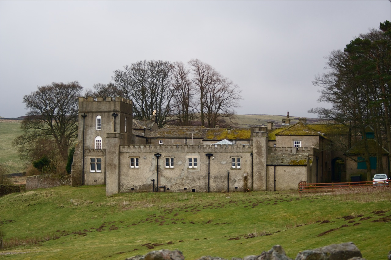 Grinton Lodge Youth Hostel, OS grid SE0497